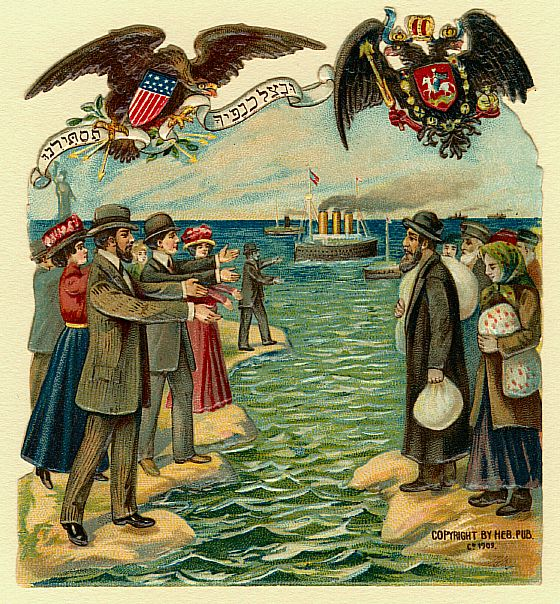 Description copied from File:Happynewyearcard.jpg: Under the Imperial Russian coat of arms, traditionally dressed Russian Jews, packs in hand, line Europe's shore as they gaze across the ocean. Waiting for them under an American eagle holding a banner with the legend "Shelter us in the shadow of Your wings" (Psalms 17:8), are their Americanized relatives, whose outstretched arms simultaneously beckon and welcome them to their new home.